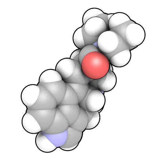 SpaceFill representation of Lysergic acid diethylamide, commonly called LSD. Done using the real time open source QuteMol system.